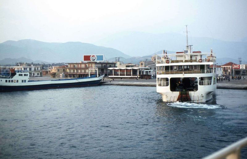 The port of Antirio (a bridge wa constructed in the 1990ies)